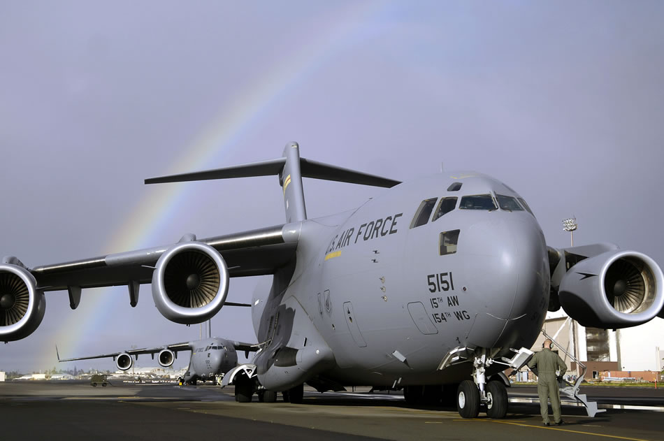 Staff Sgt. John Eller conducts pre-flights check on his C-17 Globemaster III Jan. 3 prior to taking off from Hickam Air Force Base, Hawaii, for a local area training mission. Sgt. Eller is a loadmaster from the 535th Airlift Squadron.